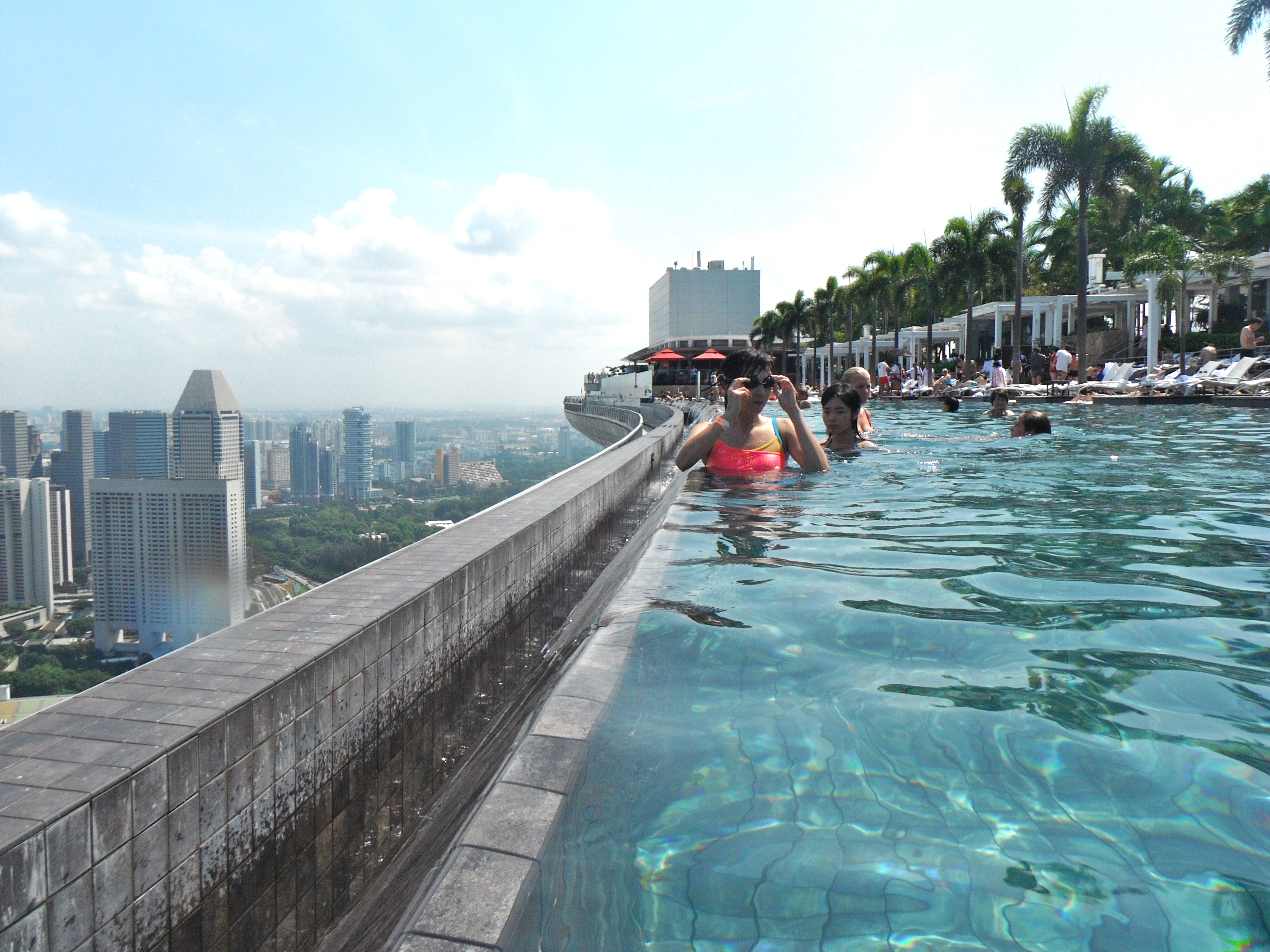 Marina Bay Sands SkyPark Infinity Pool. 57th floor. Singapore. August 2013.